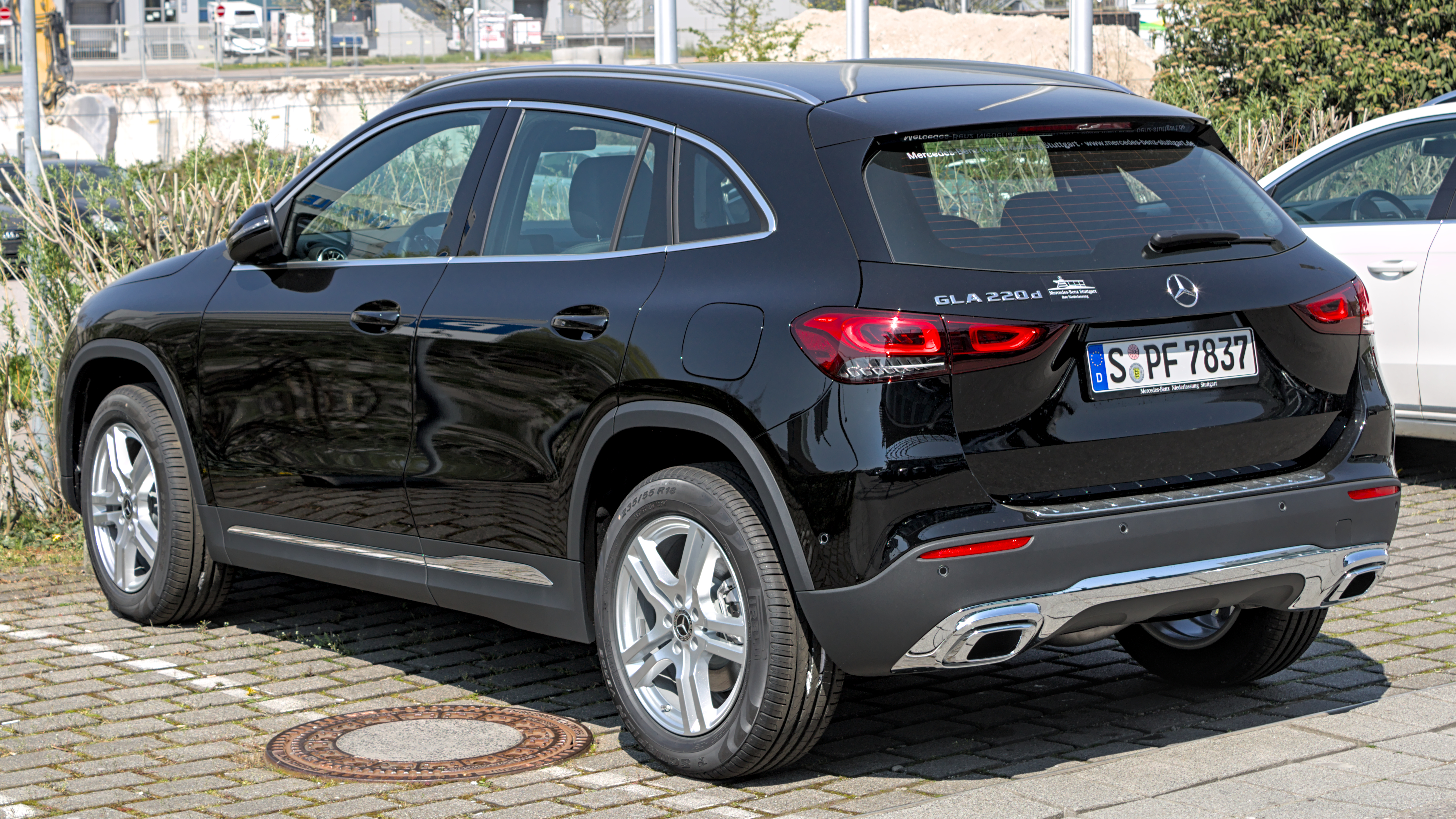 Mercedes-Benz_H247 in Stuttgart